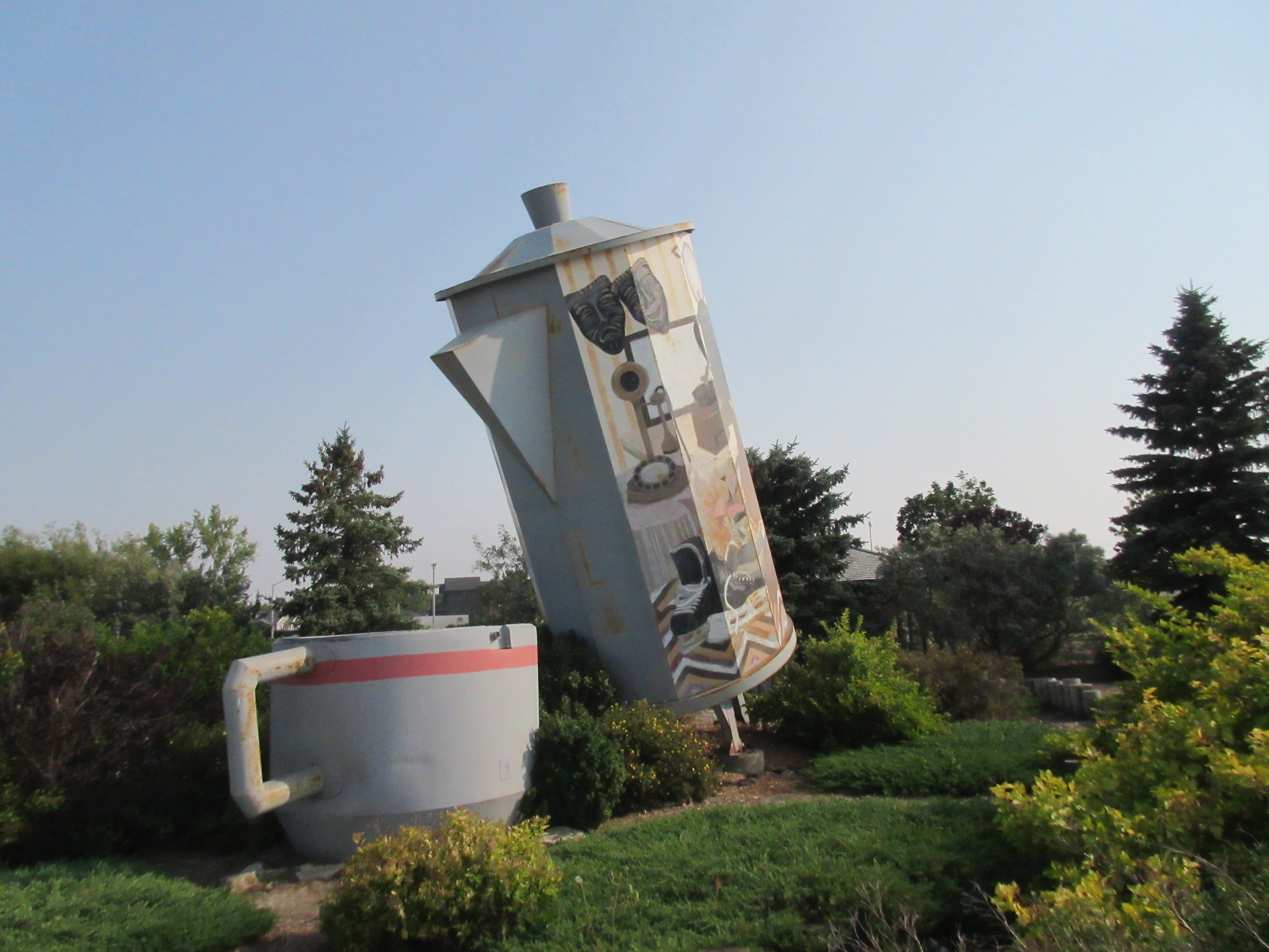 Coffee pot monument by the highway in Davidson, Saskatchewan. Approximately 24 feet tall, and would hold 150,000 cups of coffee - claimed to be the world's largest.